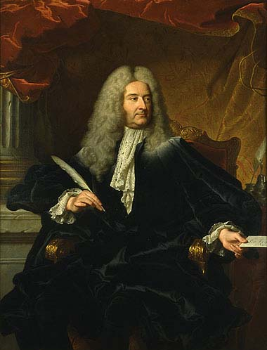 Portrait of french minister Michel Robert Le Peletier des Forts